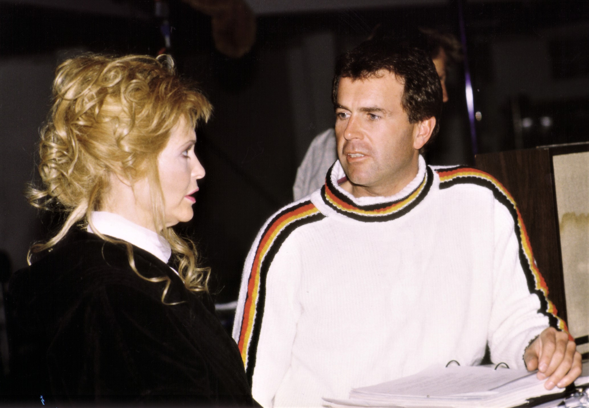 Photographed by James Brewer on-set still photographer of Illusion Infinity, commissioned by Sunset International AG